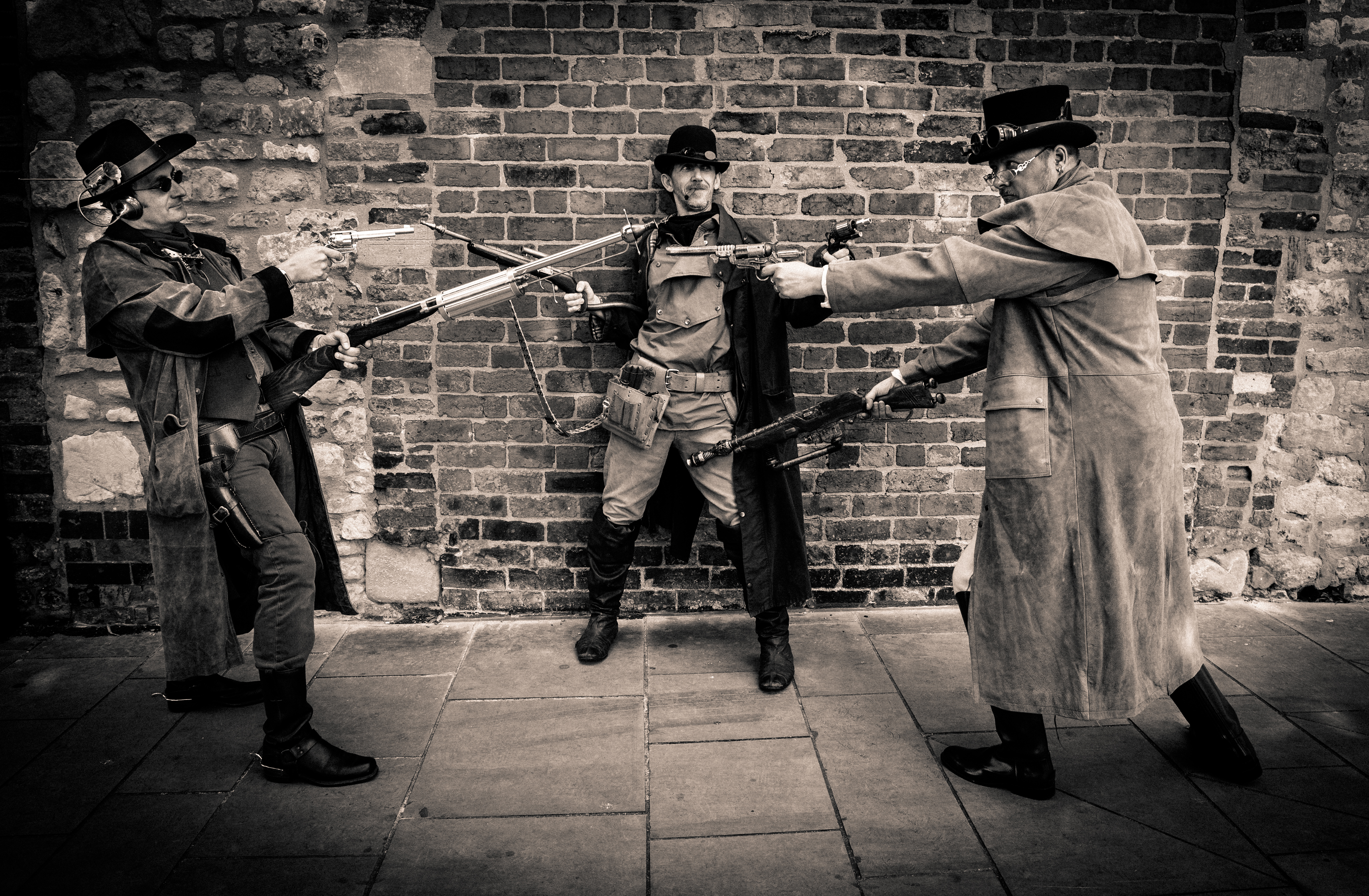 Scene from a "steampunk" convention, The Asylum, Lincoln, England, September 2012